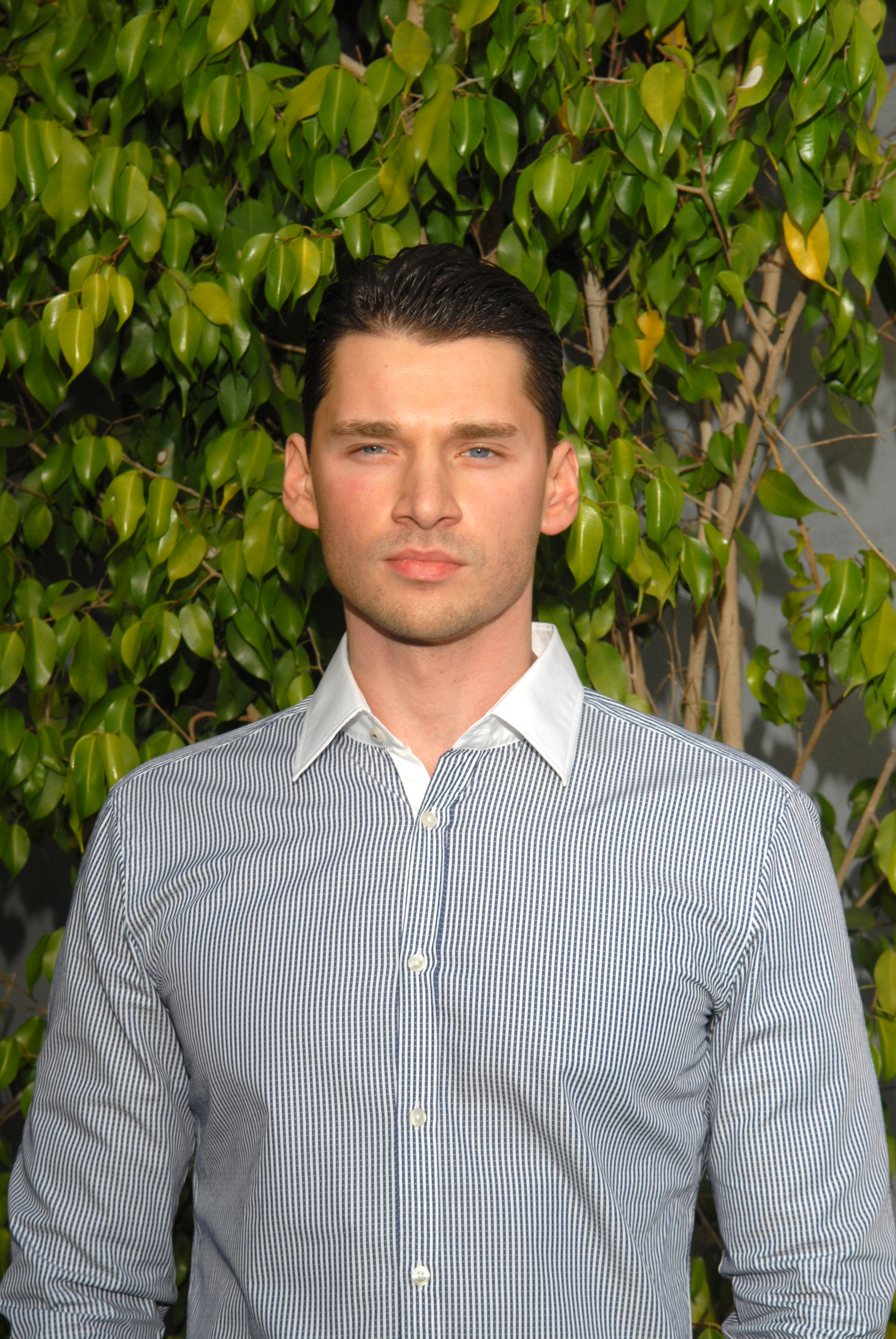 Vlad Yudin at Hollywood Awards